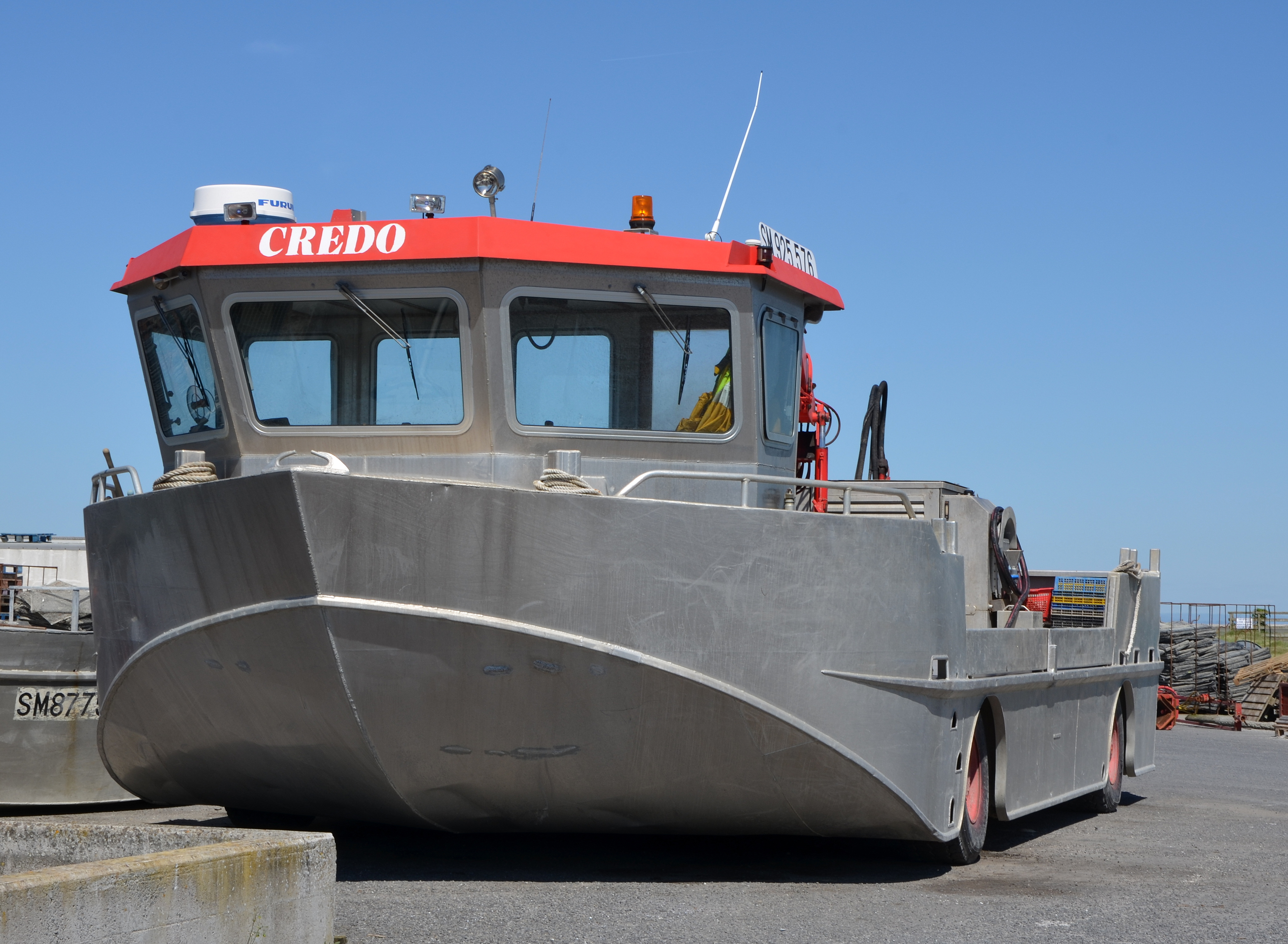 One of the amphibious vehicles used by the mussel growers of the Baie du mont Saint-Michel, Ille-et-Vilaine, France.